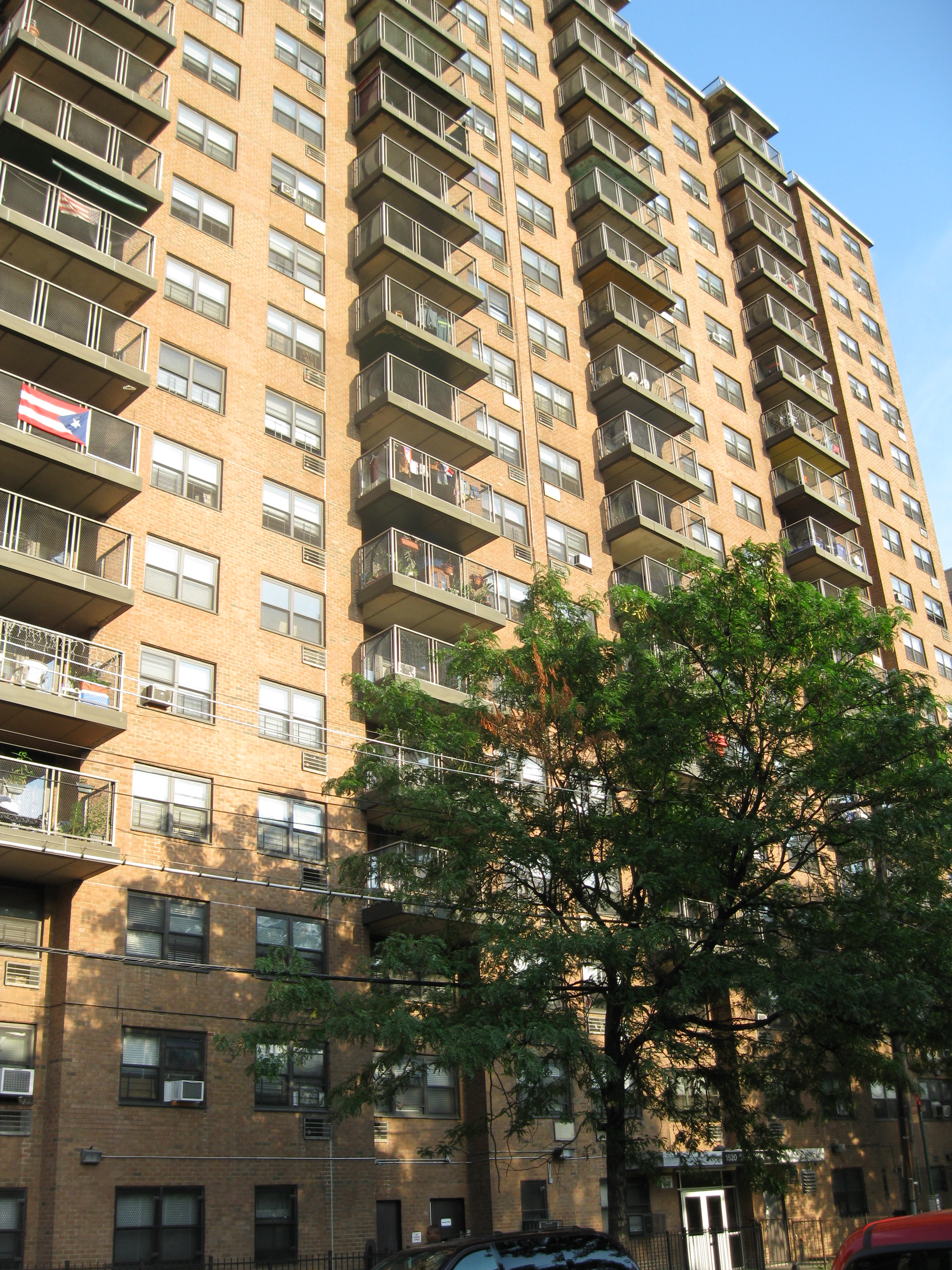 Photo of the front of 1520 Sedgwick Avenue in the Western Bronx.(американска панелка) Kool Herc, generally credited as the originator of hip-hop music, lived and threw his first parties in this building. Photo from July 2009.